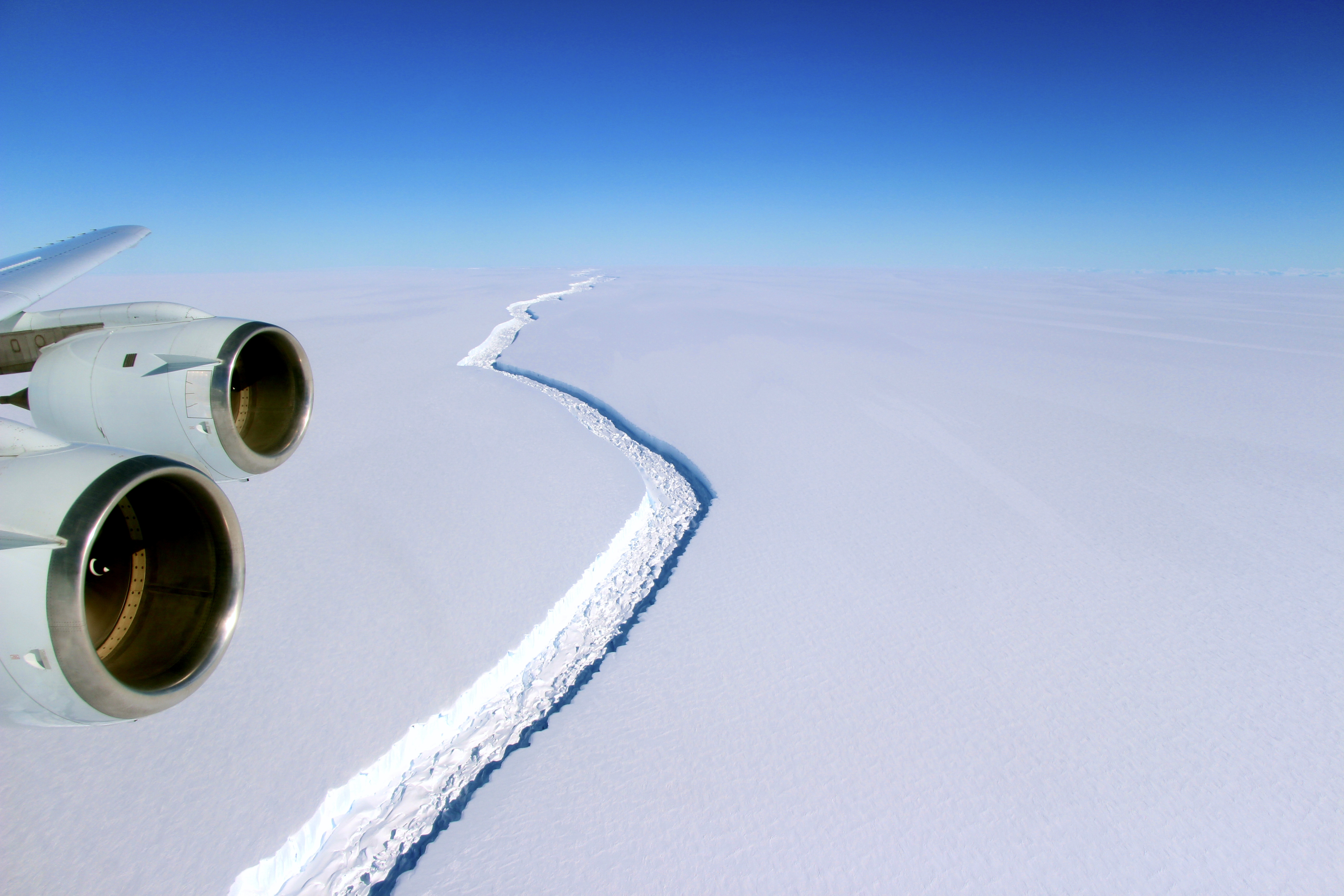 These photograph shows the wide view of the rift in Larsen C from the vantage point of NASA’s DC-8 research aircraft. NASA scientist John Sonntag snapped the photos on November 10, 2016, during an Operation IceBridge flight. The mission, which makes airborne surveys of changes in polar ice, completed its eighth consecutive Antarctic deployment later that month. The rift in Larsen C measures about 100 meters (300 feet) wide and cuts about half a kilometer (one-third of a mile) deep—completely through to the bottom of the ice shelf. While the rift is long and growing longer, it does not yet reach across the entire shelf.